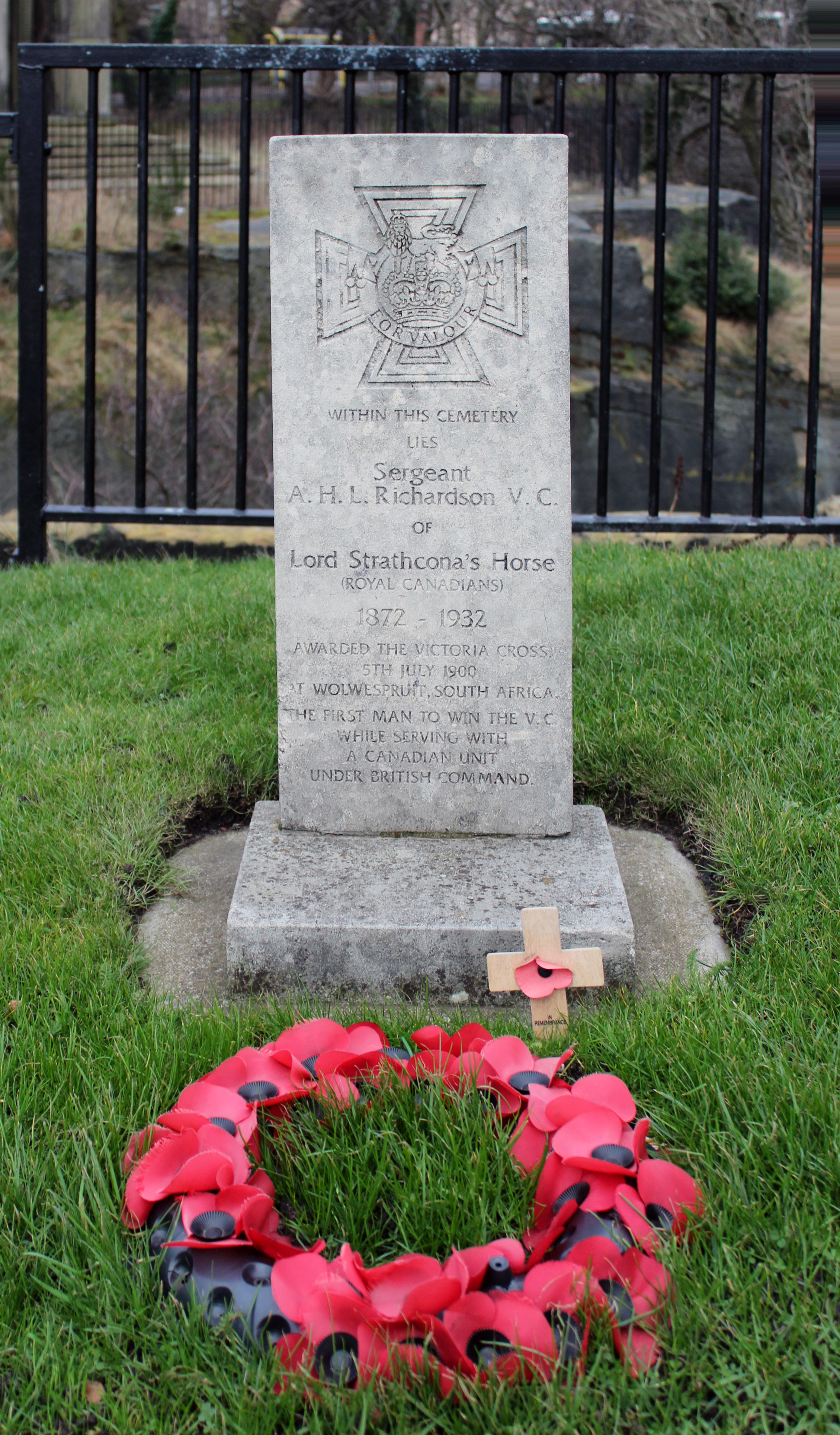 Memorial to Arthur Herbert Lindsay Richardson, who won his VC in 1900 during the Second Boer War. He is buried in St John's Gardens